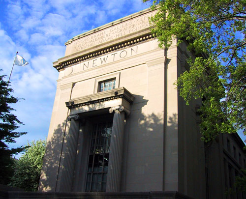 Newton Tower at MIT Photograph taken by Jackson Frakes. Copyright © 2002 by Jackson Frakes. (Jackson Frakes is User:MITalum and licenses the image under the "Wikipedia copyright".) Category:Massachusetts Institute of Technology